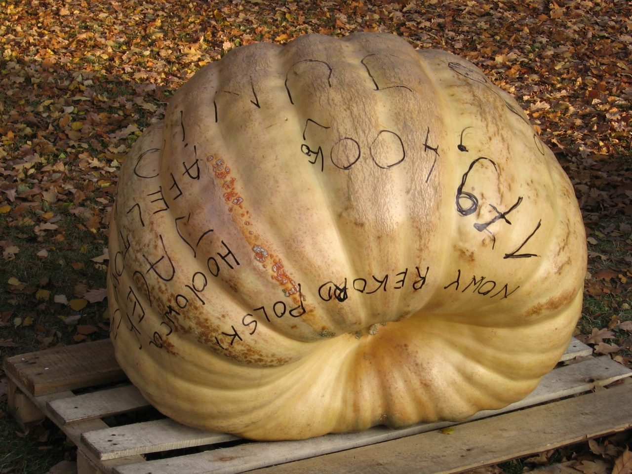 Cucurbita maxima - 179.4 kg in Botanic Garden in Wrocław, Poland, the greatest pumpkin in Poland in 2005 plantator: Jacek Afeltowicz